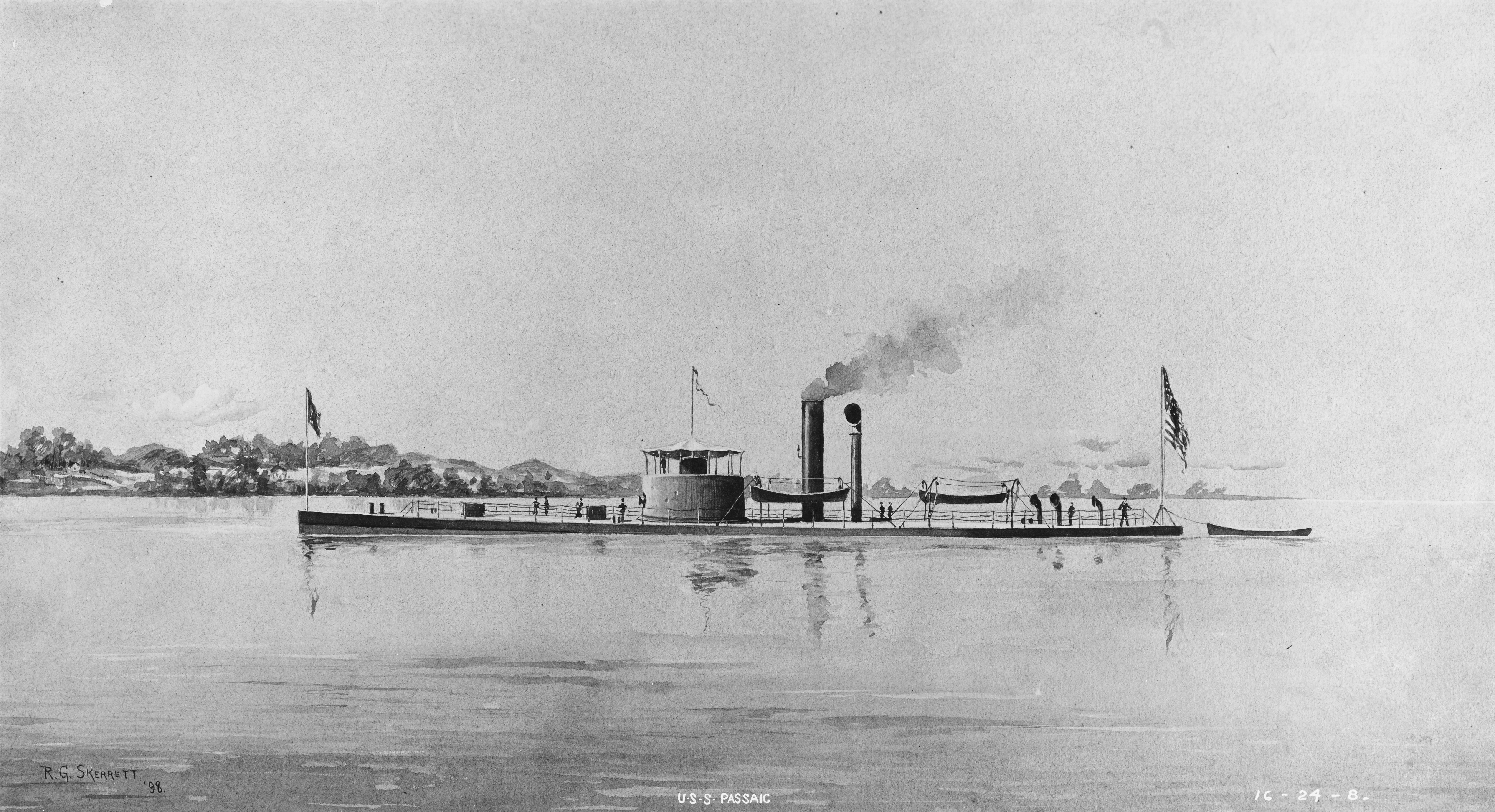 Removed caption read: Photo # NH 42803 USS Passaic. Artwork by R.G. Skerret